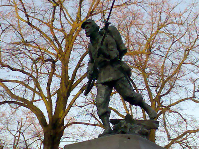 Statue of the soldier of the 48th Mobile, taken by user:Clodomir17 in Lille, 2006, dec 10th